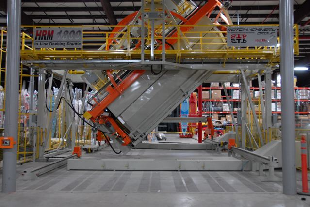 Rock & Roll Machine HRM1800